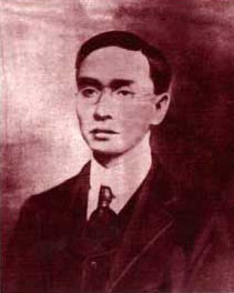 Liu Shi-fu, a Chinese anarchist that died in 1915.